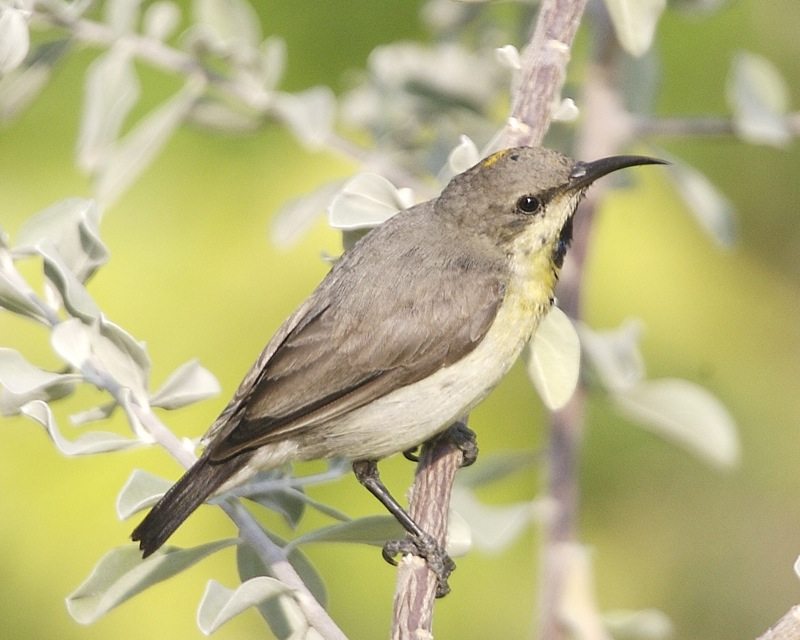 This is an eclipse male. While I have seen photos of the male in its full glory , the yellow patch on the crown is not commonly visible. None of the guides I have referred to mention it as a distinguishing mark. Presumably with all the features and colors being so obvious in the field this minor mark is of relatively little importance. (Pointed out that it may just be pollen) Purple Sunbird Cinnyris asiaticus Nominate race, Cinnyris asiaticus asiaticus 5th. January 2009 Jhalana Dungri , Jaipur, India Distribution: 690V8715